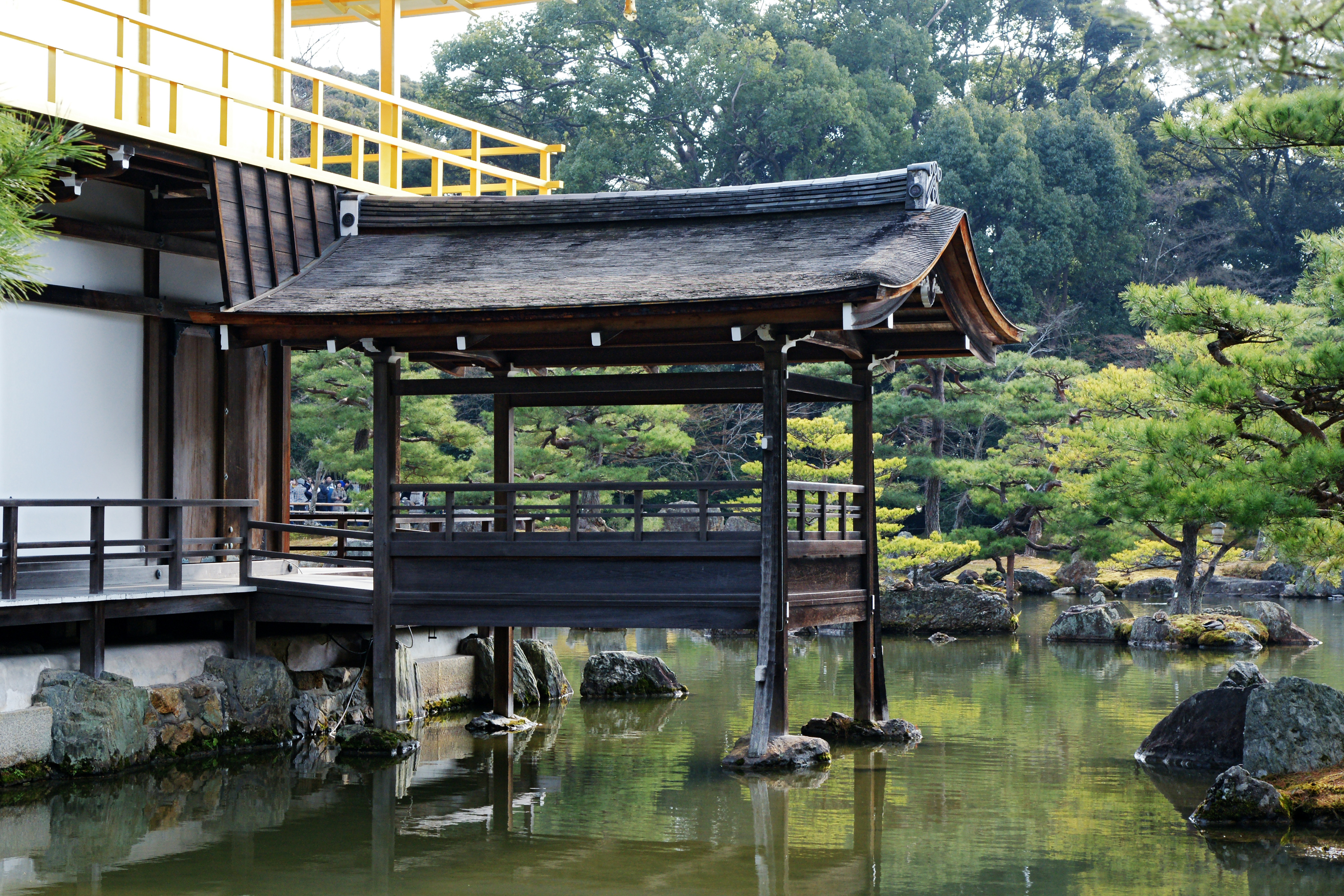 Kinkaku-ji in Kyoto, Kyoto prefecture, Japan. It was registered as part of the UNESCO World Heritage Site "Historic monuments of ancient Kyoto".